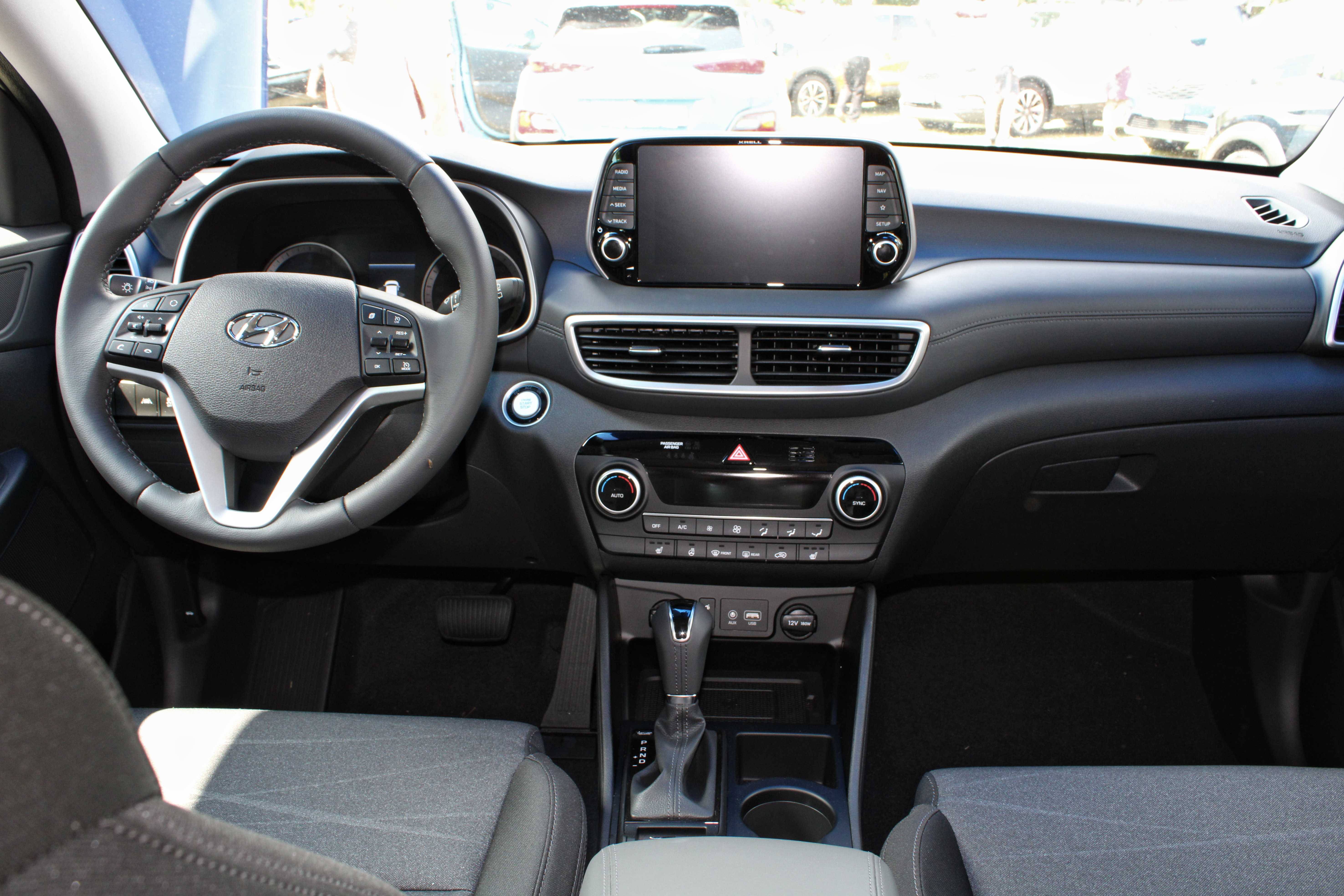 Hyundai Tucson (Facelift) at schloss Monrepos